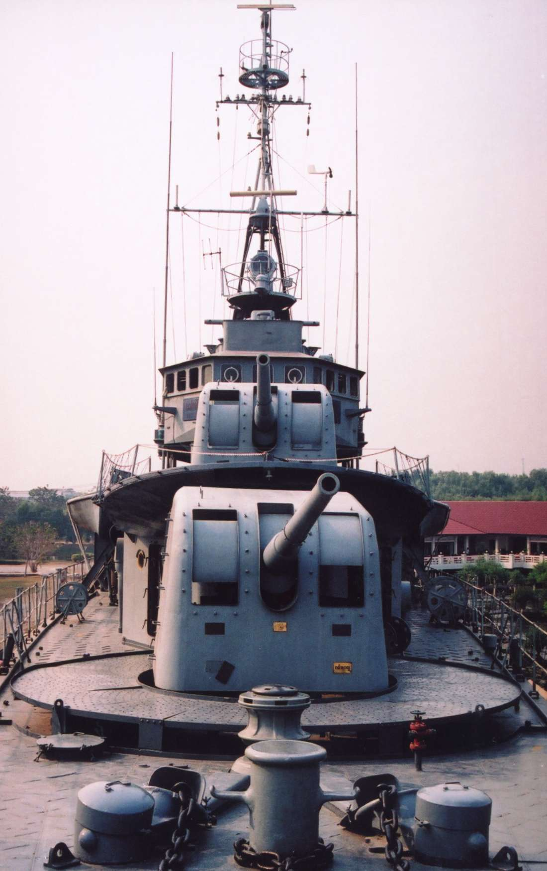 HTMS Maeklong, view from the bow towards the front cannons and the bridge. Photo taken by User:Ahoerstemeier on January 17 2005.